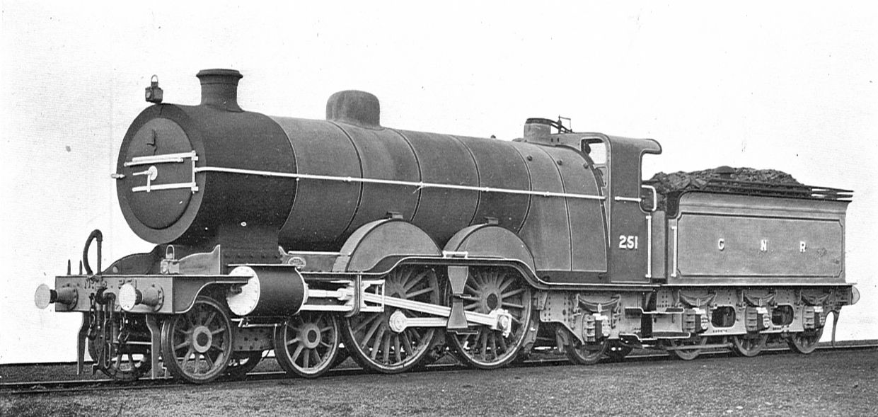 Great Northern Railway "Atlantic" type Express Engine Great Northern Railway 'large boiler' Class C1 Nº 251